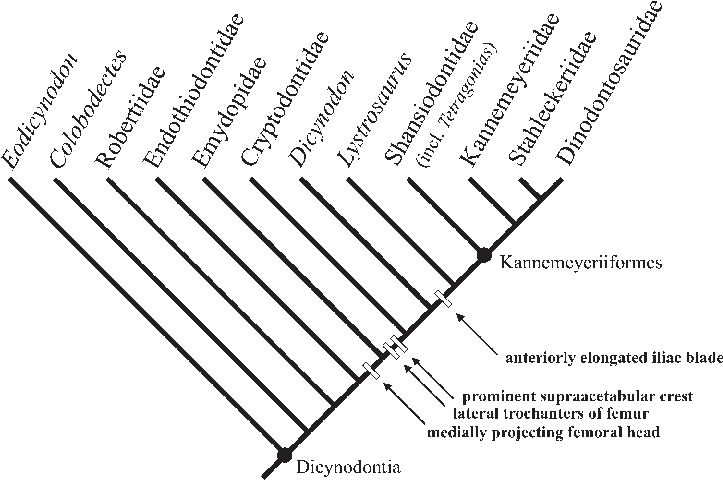 This tree displays the phylogenetic relationships of Tetragonias